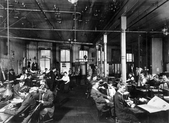 New Orleans Item newspaper news room, circa 1900